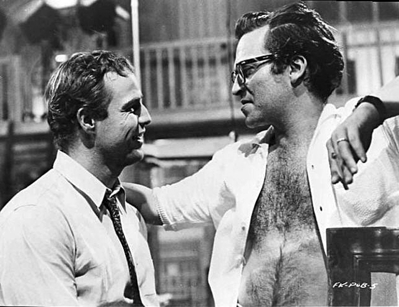 Candid photo of Marlon Brando and director Sidney Lumet on the set of The Fugitive Kind (1959)